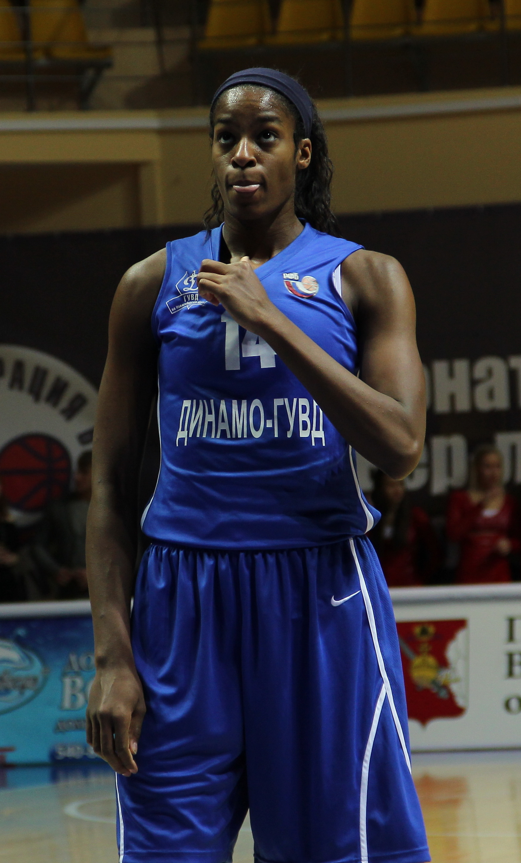 Russia, Vologda, Devereaux Peters in game «Vologda-Chevakata» vs «Dinamo-GUVD» (Novosibirsk)